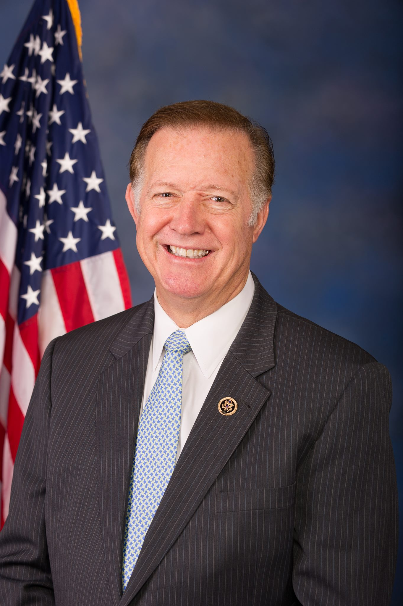 Randy Weber official photo, 2015